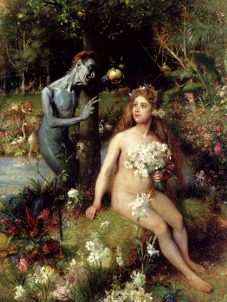 Pierre Jean van der Ouderaa. Belgian painter. (1841-1915) Aliases: Piet Jan "van der" Ouderaa; Pierre Jean Van der Oudera; Piet Jan Van der Oudera.